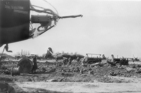 Unidentified 394th Bomb Group B-26 Marauders at RAF Boreham, England.